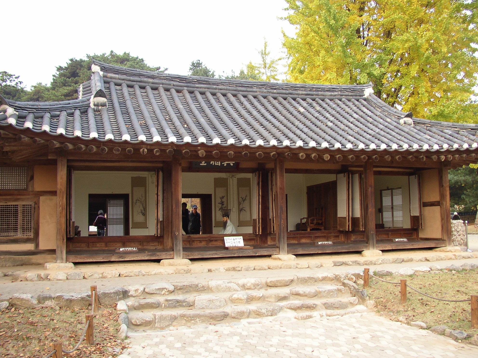 Yeoyudang, home of Jeong Yak-yong, a prominent Korean philosopher during the late period of the Joseon Dynasty.